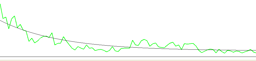 In this diagram the green line shows the yearly ring widths of a 90 years old Pine (Pinus sylvestris). On the Y-axis is the ring width for each year, and on the X-axis the year, oldest, i.e the innermost, to the left. The yearly growth - seen as ring widths - is decreasing when the tree grows older. (This decrease of ring widths does of course not mean that the growth of the volume of the whole tree will decrease)